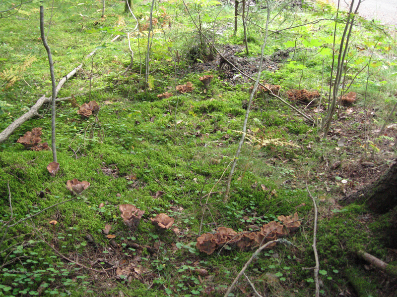 Gomphus clavatus growing in a fairy ring formation